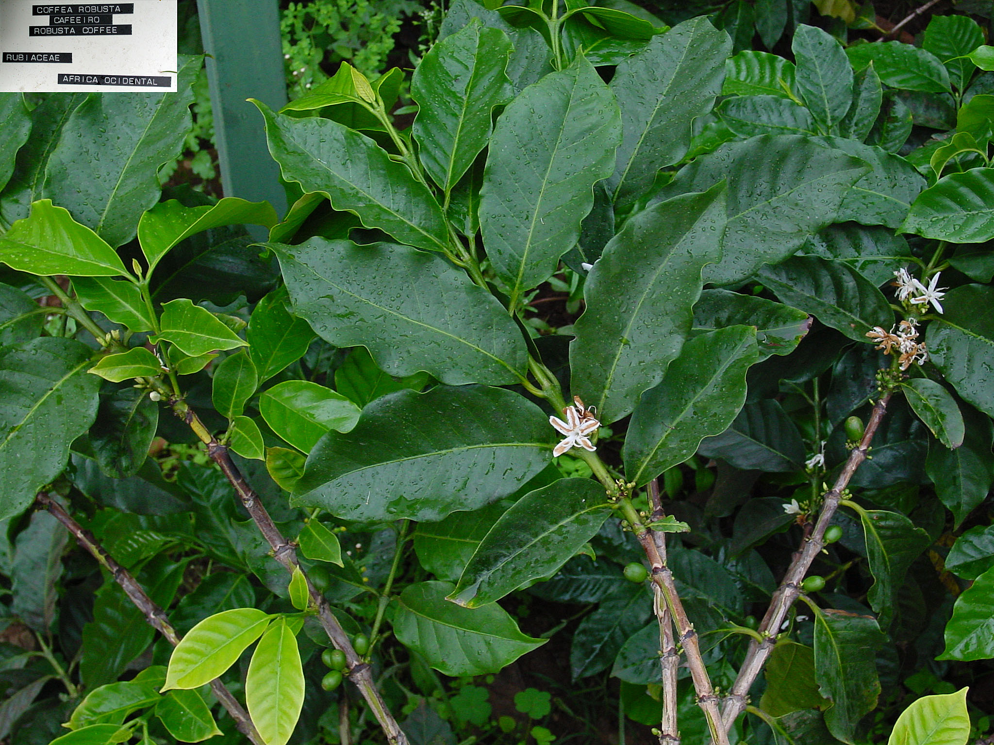 Robusta Coffee. Photo taken in the botanic garden in Madeira.